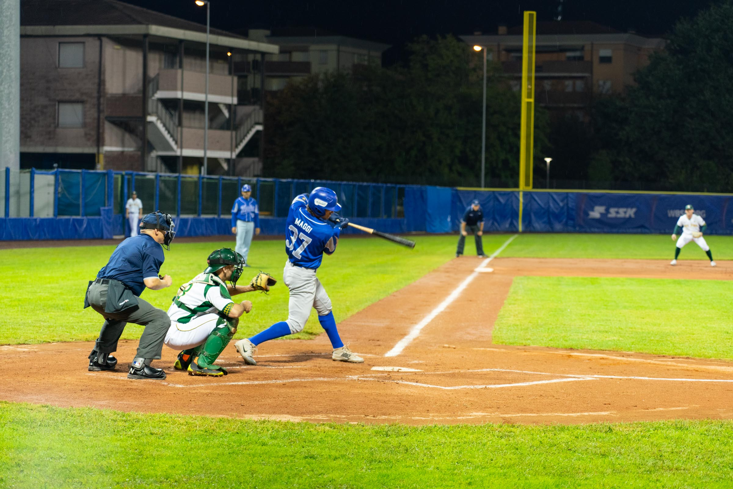 Drew Maggi bats for Italy against South Africa during a 2020 Olympic qualifying event in Parma, Italy.